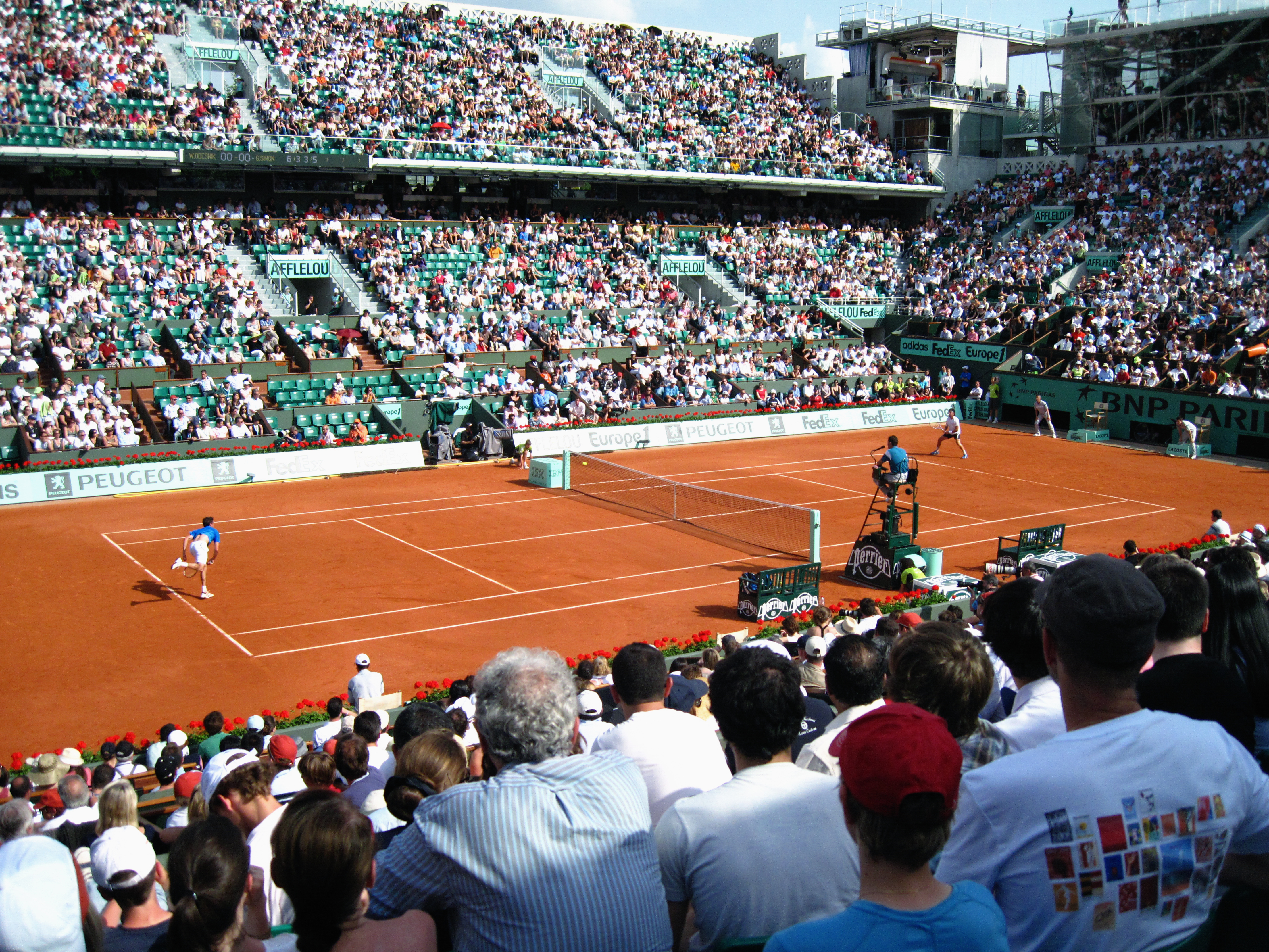 A match of the French Open underway at Roland Garros